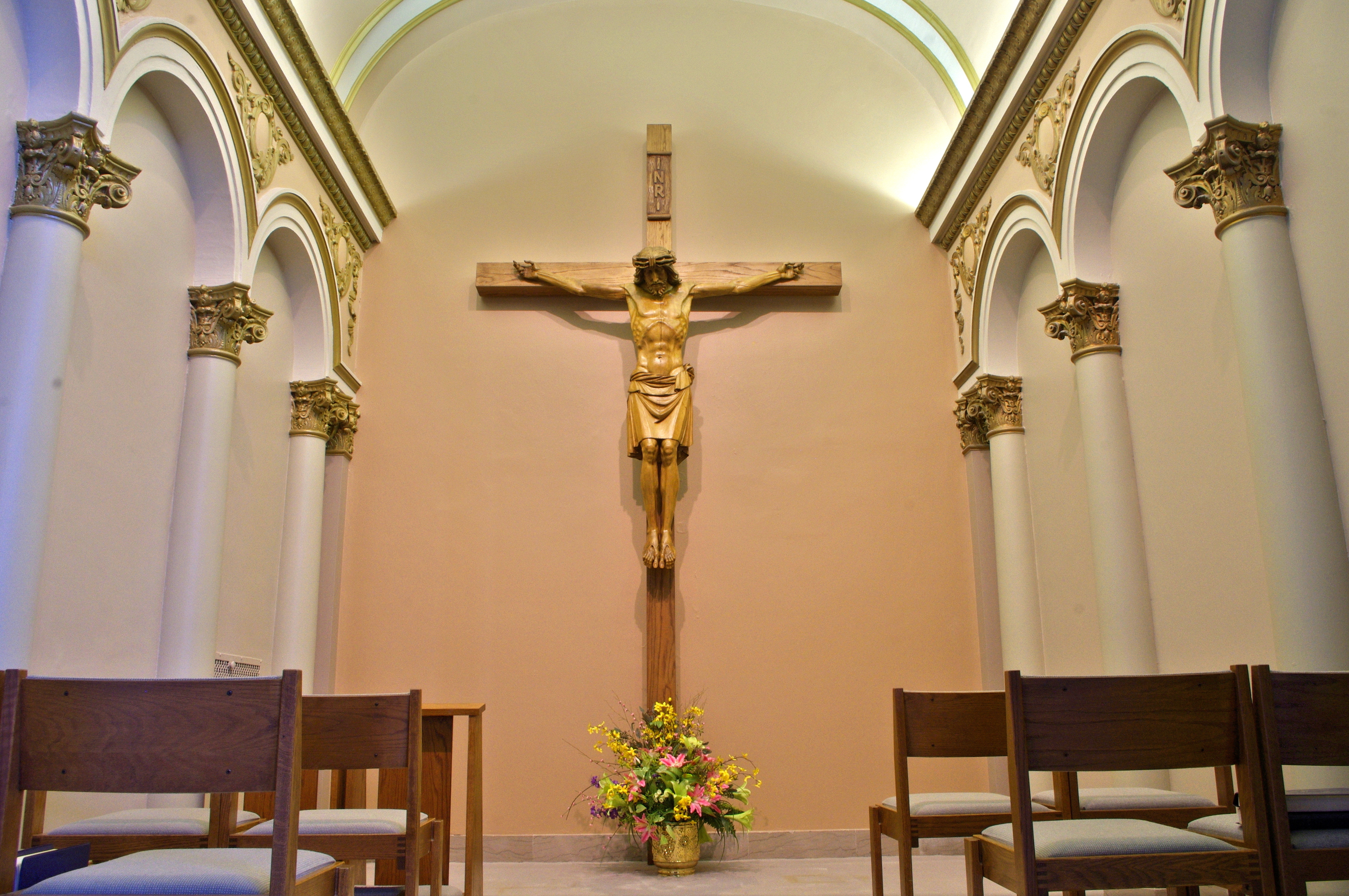 Cathedral of the Incarnation (Nashville, Tennessee) - interior, Reconciliation Chapel